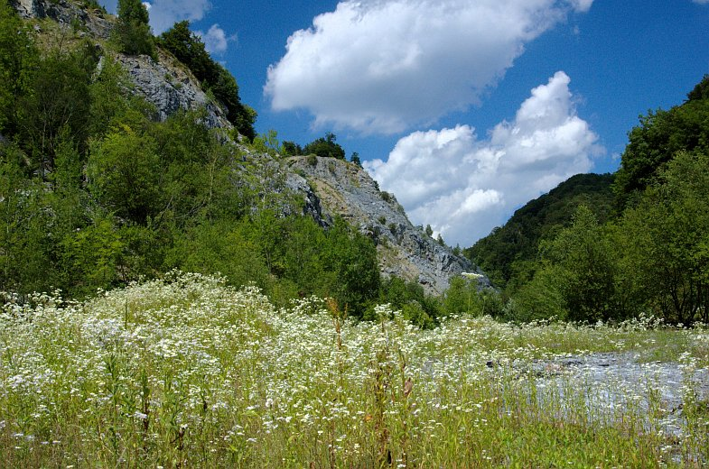 Strminy, Little Carpathians